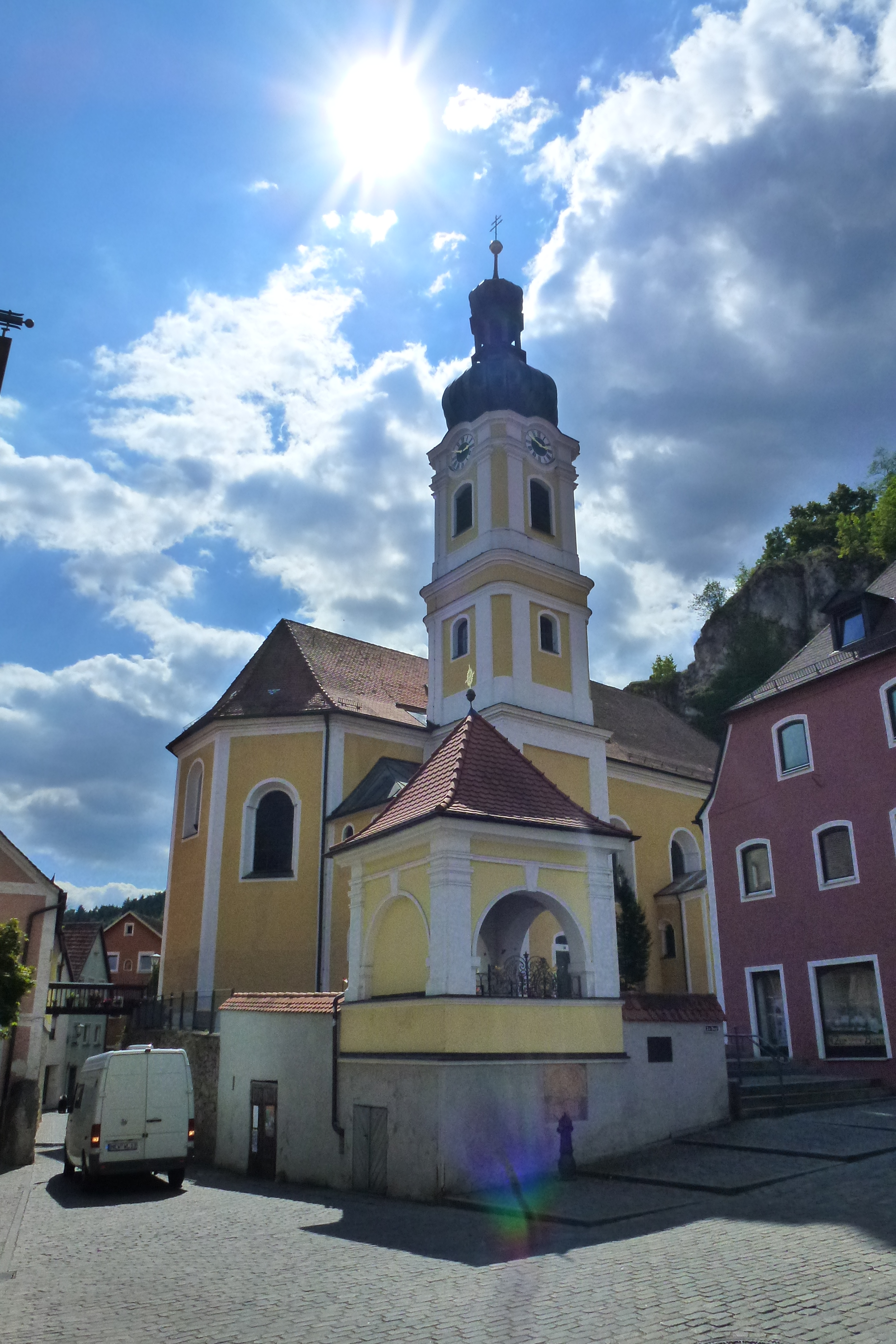 Church in Kallmunz, Bavaria, Germany